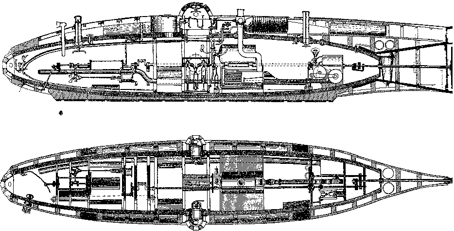 Ictineo Plan Comment: Looks like the Ictineo II, 1864